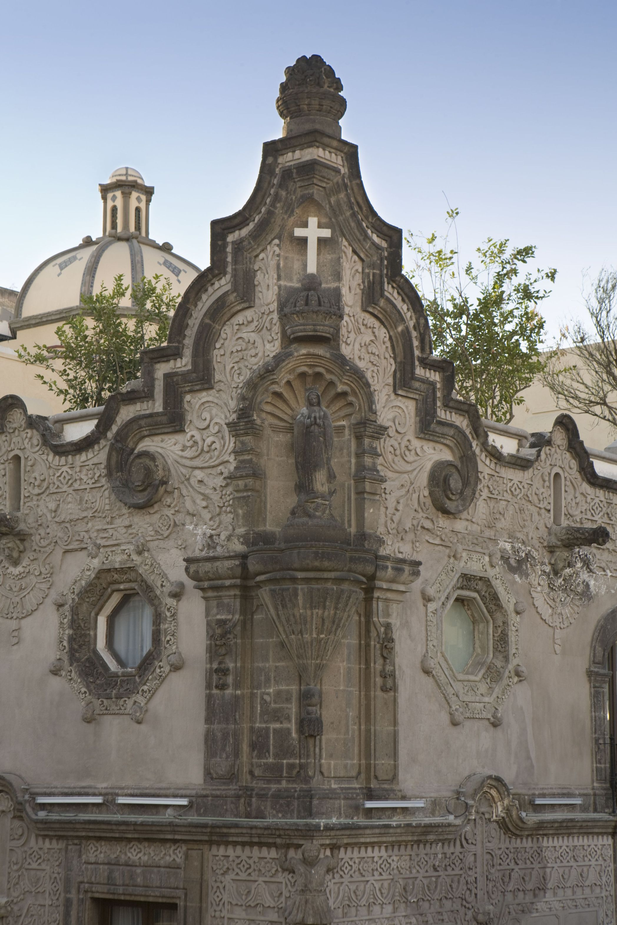 top view of colonial building Casa SAn Agustin in Downtown Mexico City